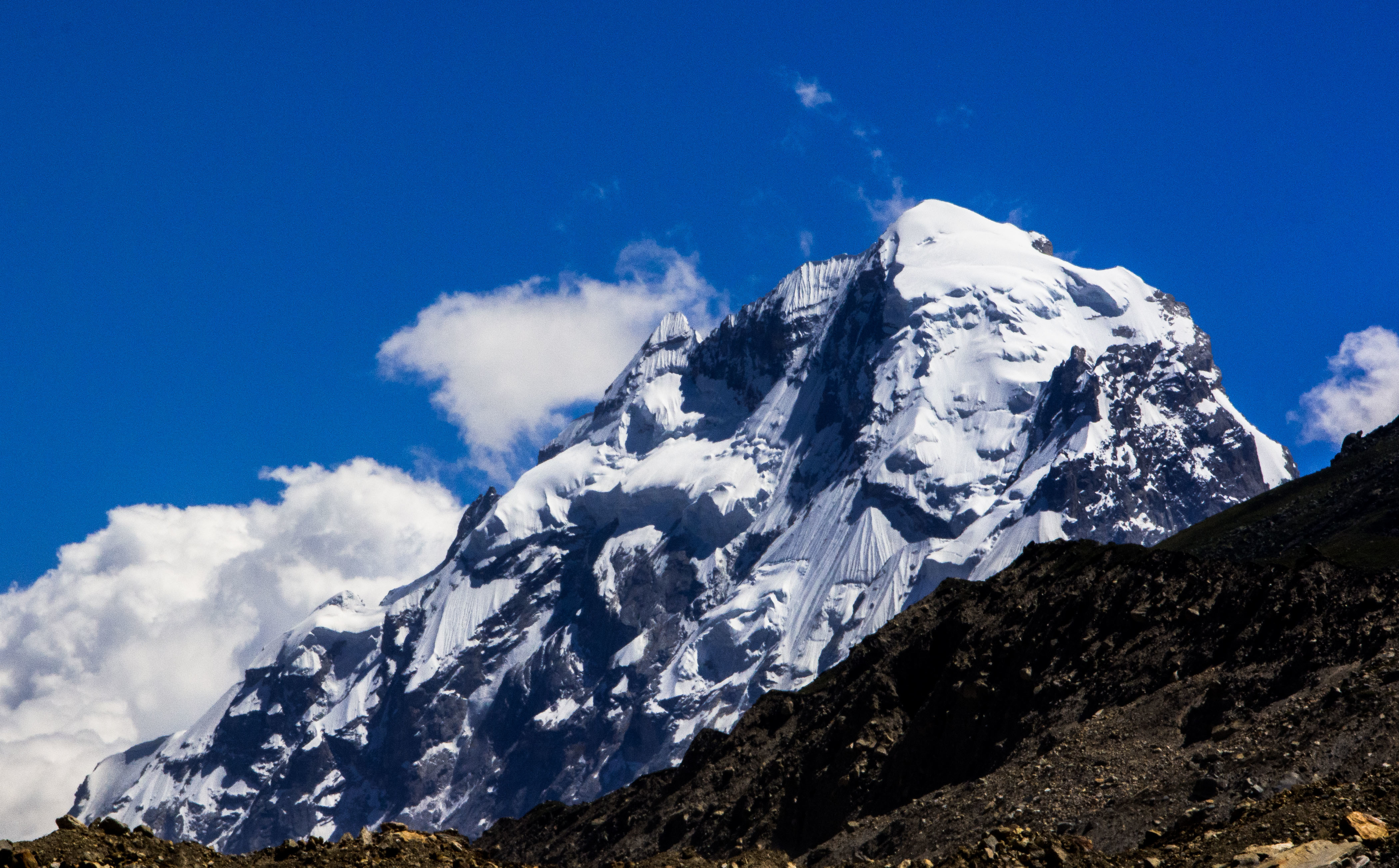 Peak of Mount Karchakund (6632 meters) as seen from Tapovan, Chamoli district, Uttarakhand in India. North India